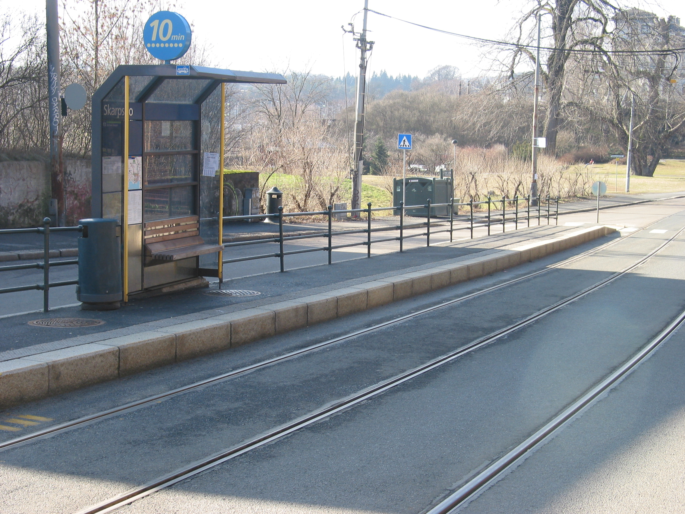 Skarpsno station in Oslo, Norway. Looking west.